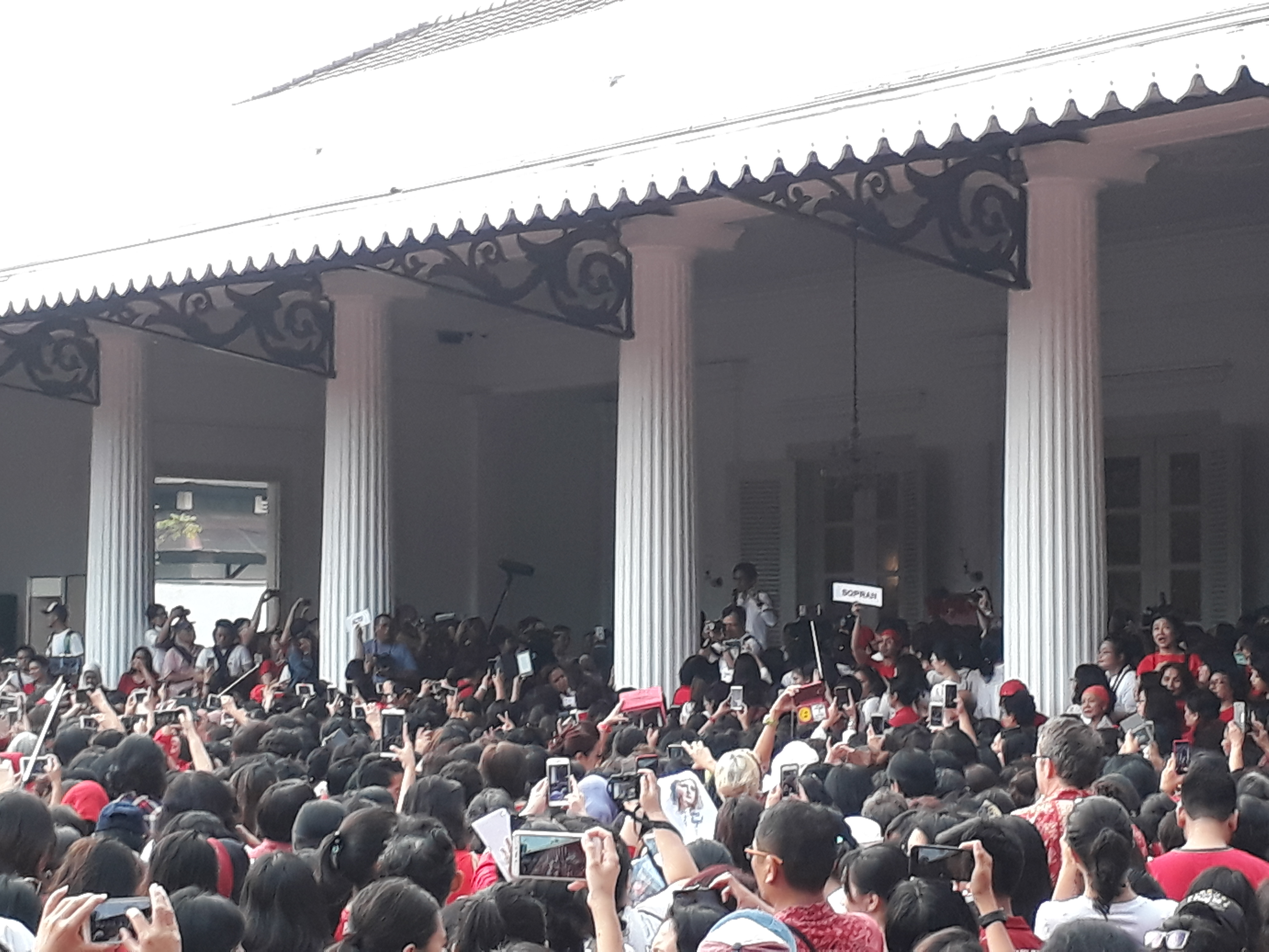 The singing protest for Ahok arranged by Addie MS with solidarity for Ahok (Basuki Tjahaja Purnama).